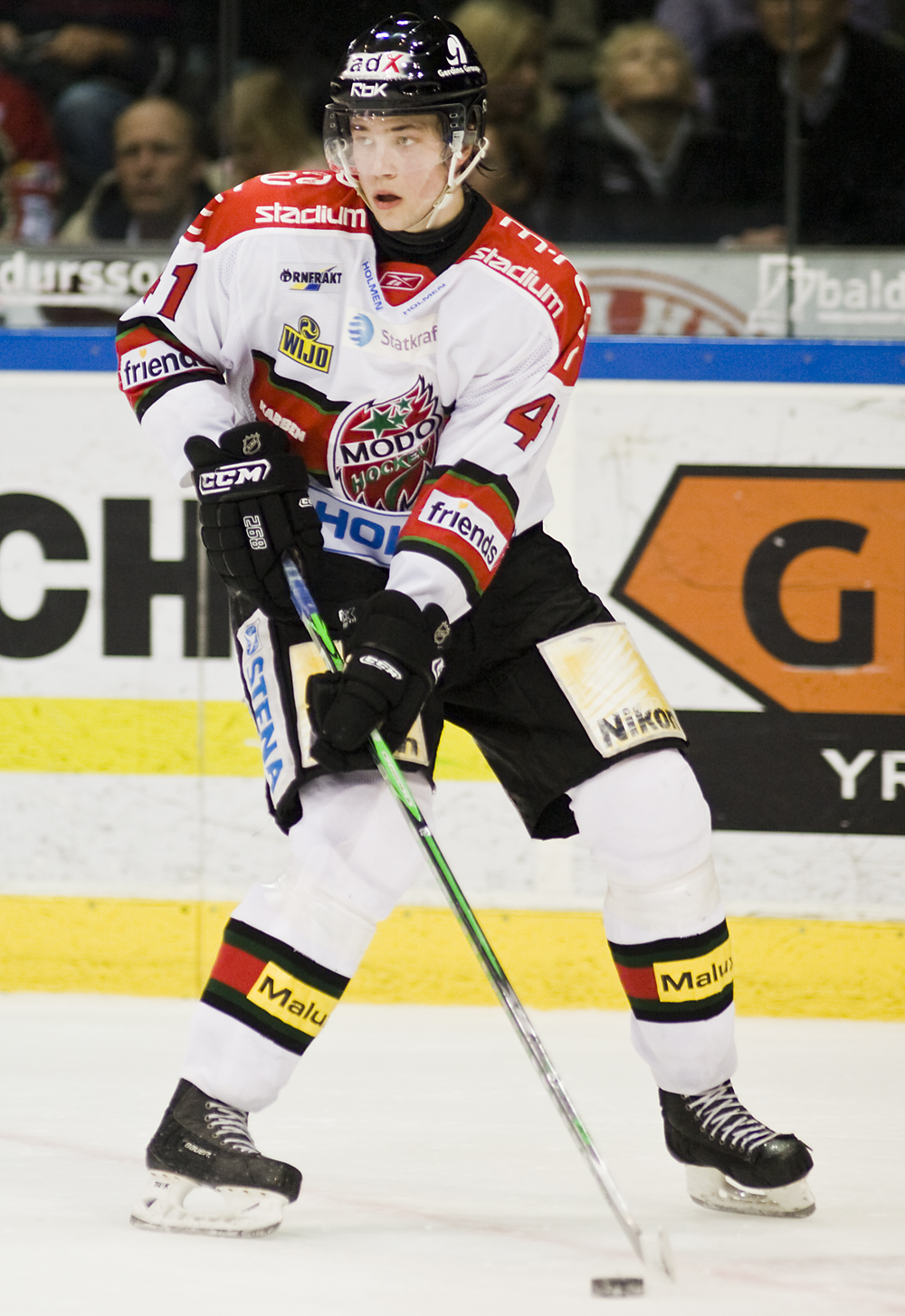 Victor Hedman of MODO Hockey during a game against Frölunda HC in Scandinavium, Gothenburg, on February 26, 2009.